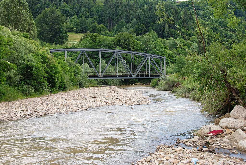 Sălăuţa River in Coşbuc